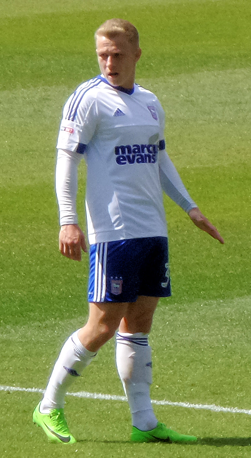 Danny Rowe playing for Ipswich Town at Nottingham Forest on 7 May 2017